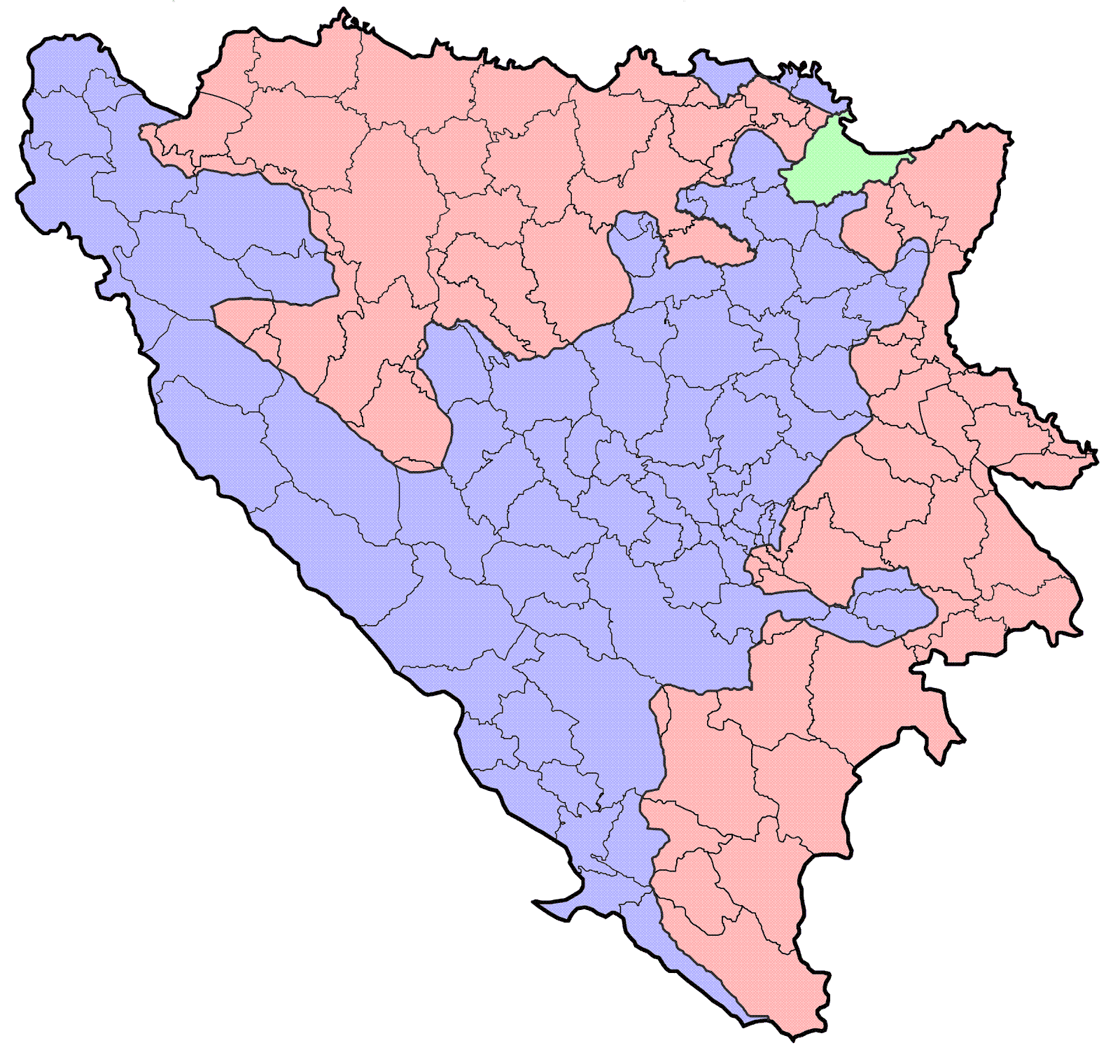 Municipaliteis in Bosnia-Herzegovina. Red = Republika Srpska Blue = Federation of Bosnia-Herzegovina Green = Brčko District